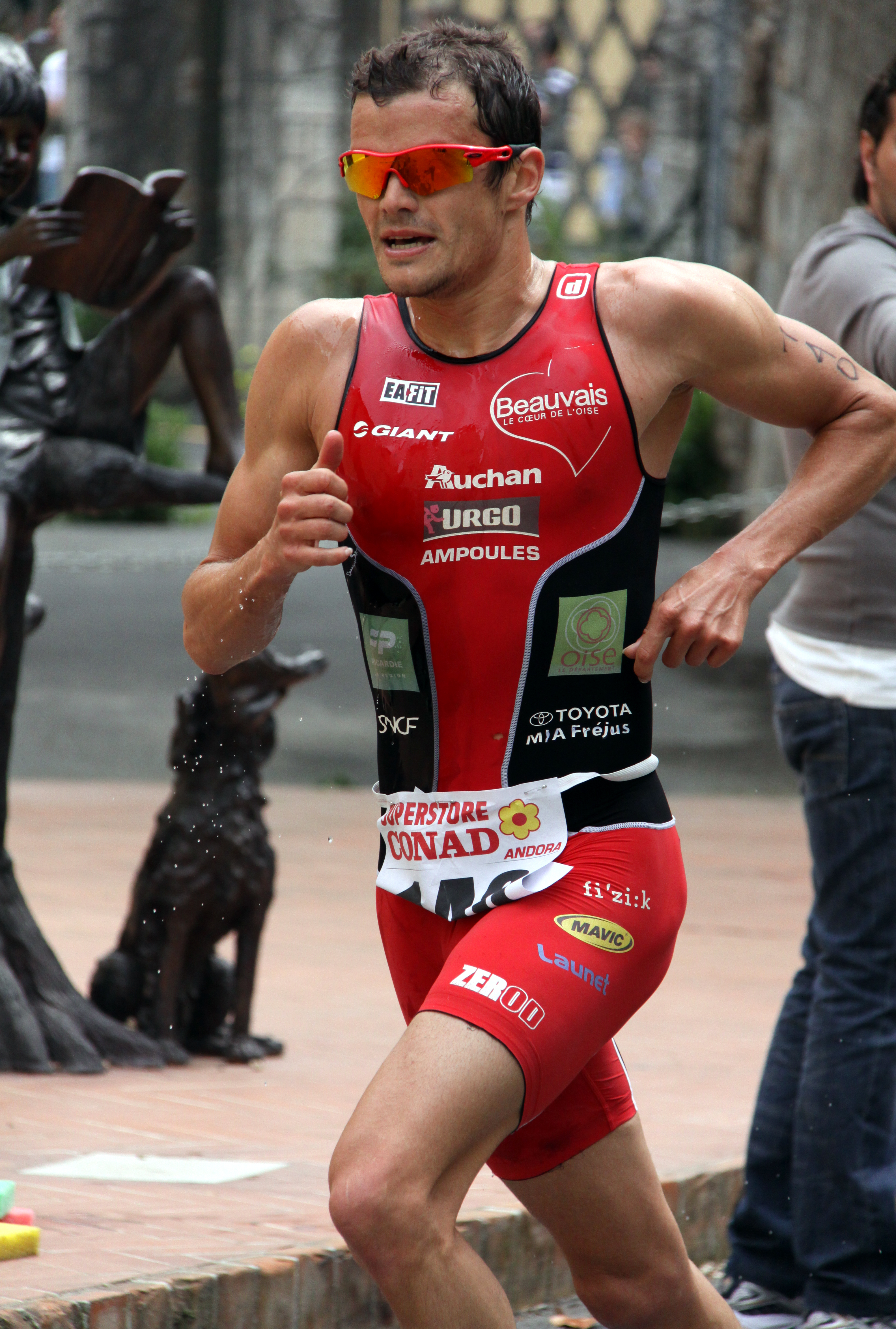 Frédéric Belaubre winner of Triathlon Andora 2010